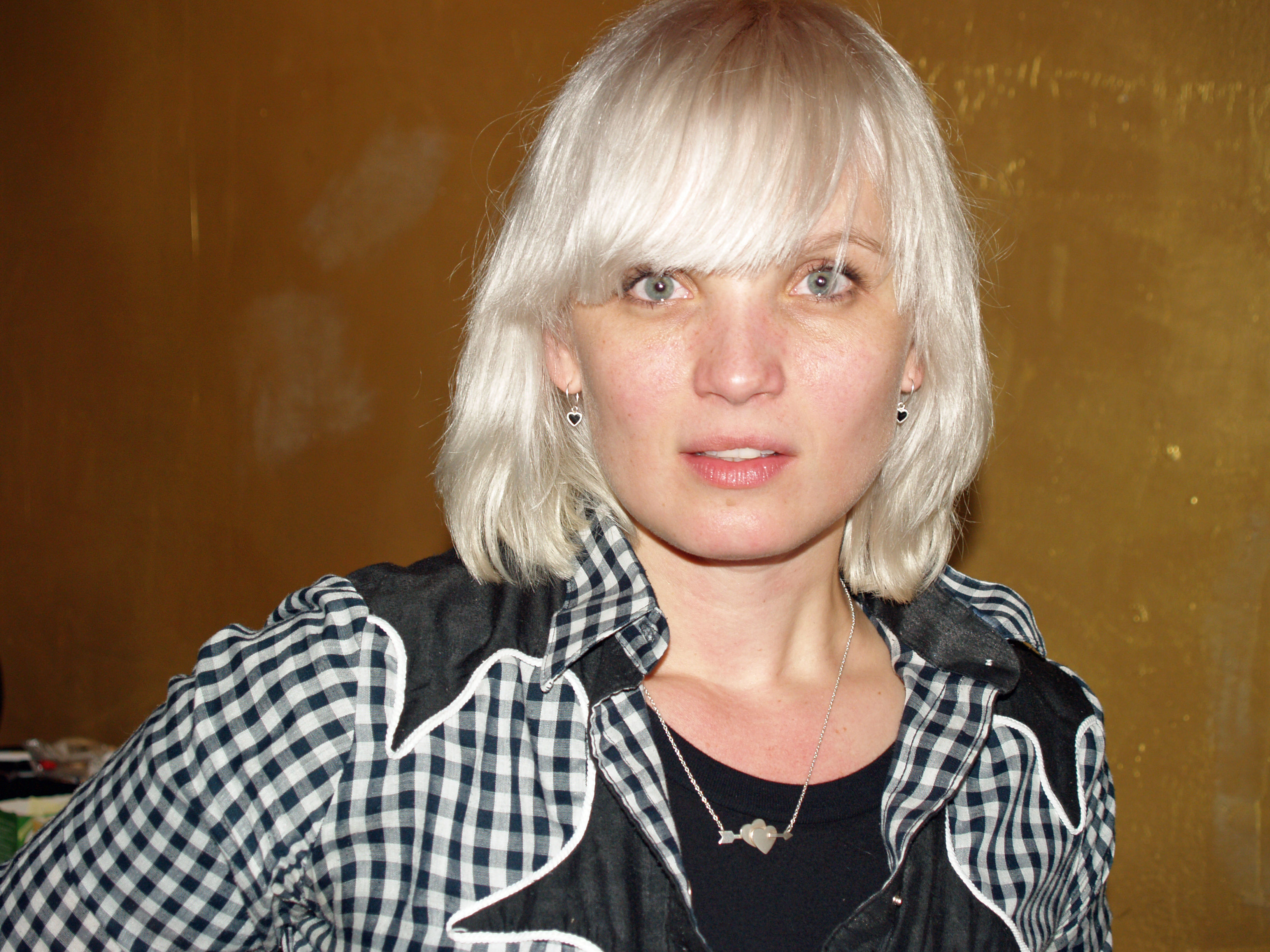 Sharin Foo of The Raveonettes at the Bowery Ballroom right after her Wikinews interview.The photographer dedicates this portrait of Sharin Foo, one of his favorites, to Wikipedia editor Ohnoitsjamie, another one of his favorites.